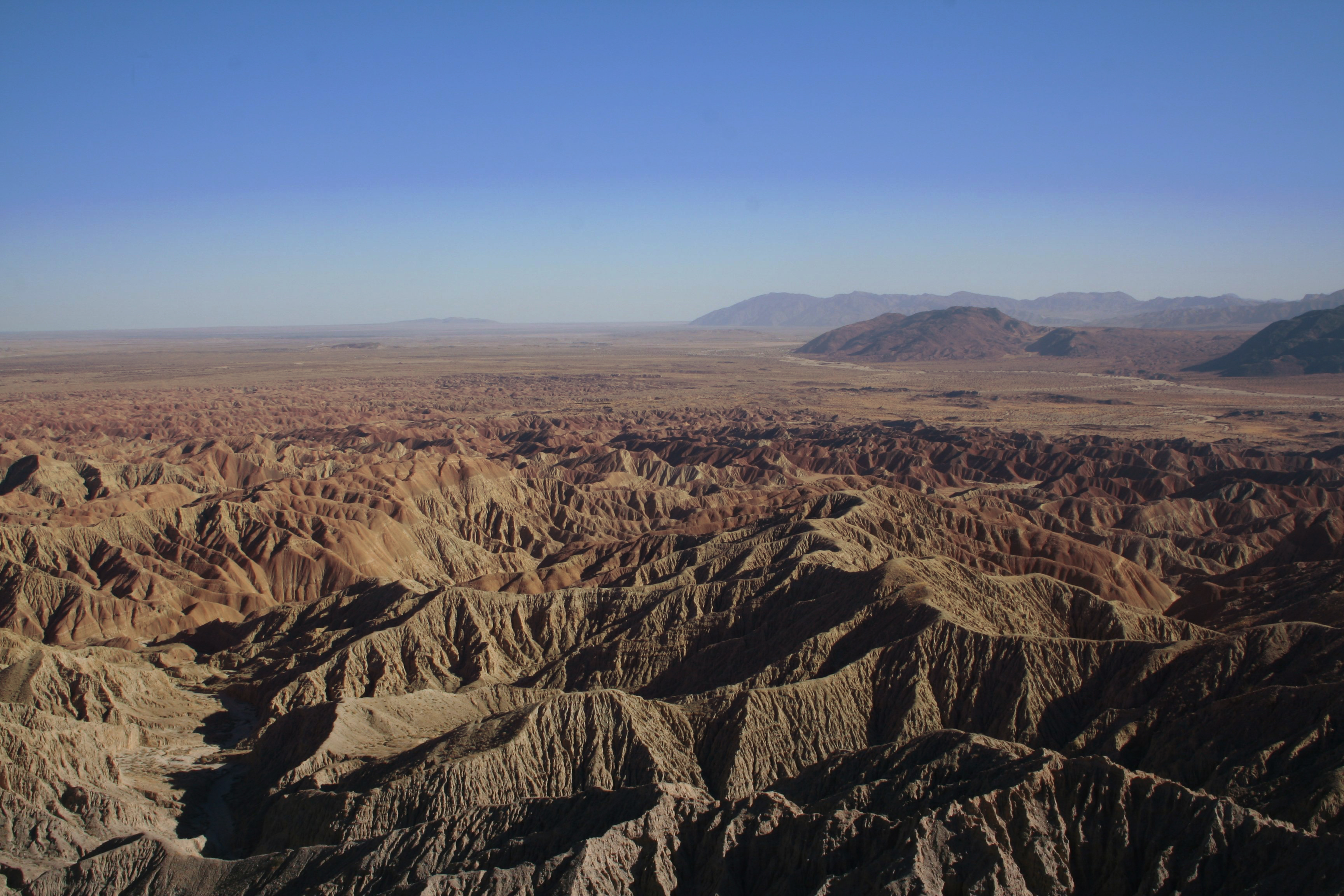 Font's Point Anza-Borrego Photographed by and copyright of (c) David Corby (User:Miskatonic, uploader) 2006